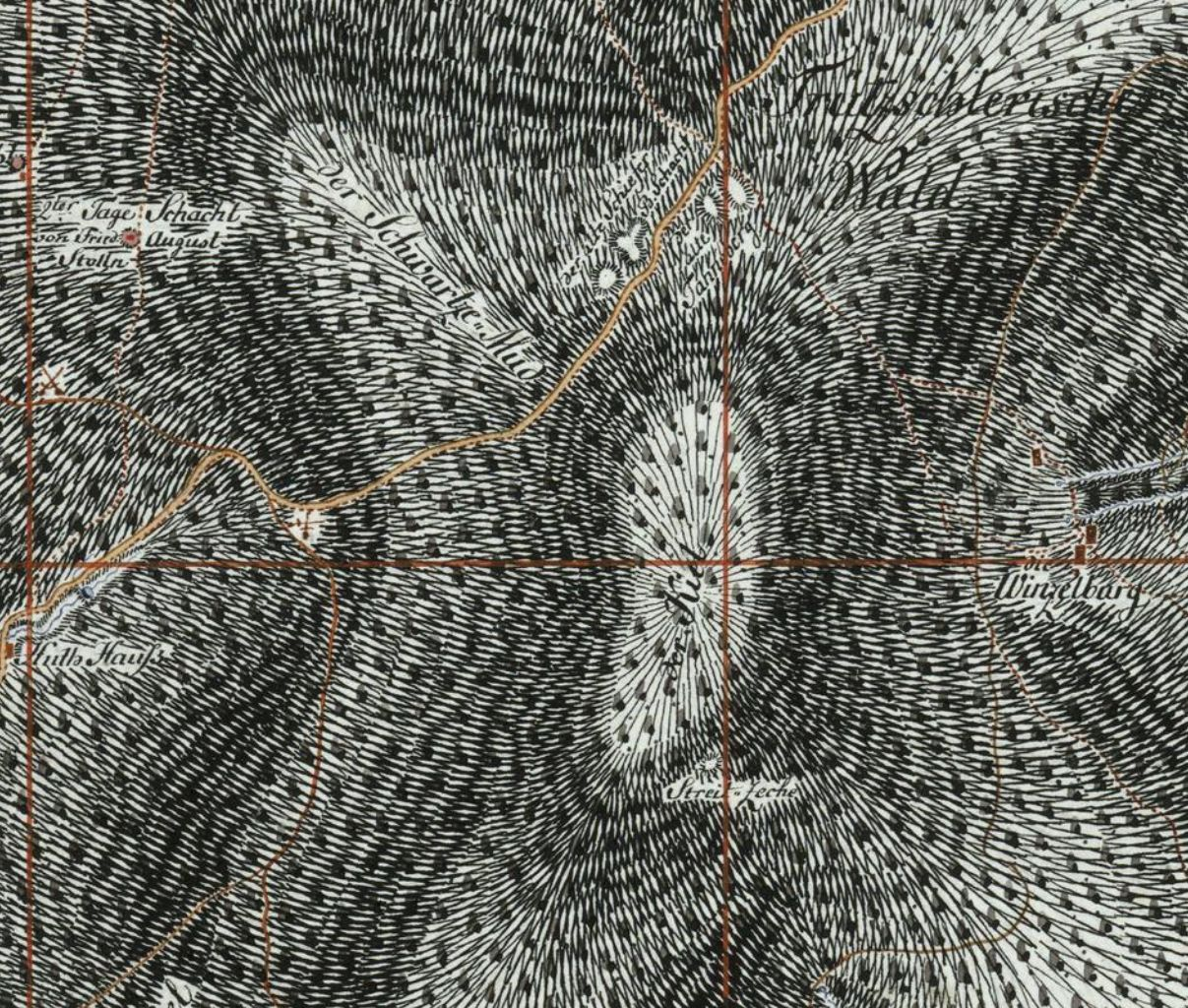 Kiel (mountain), Vogtland,Ore Mountains, Germany, part of a map from 1792. (Link to map in Staats- und Universitätsbibliothek Dresden)